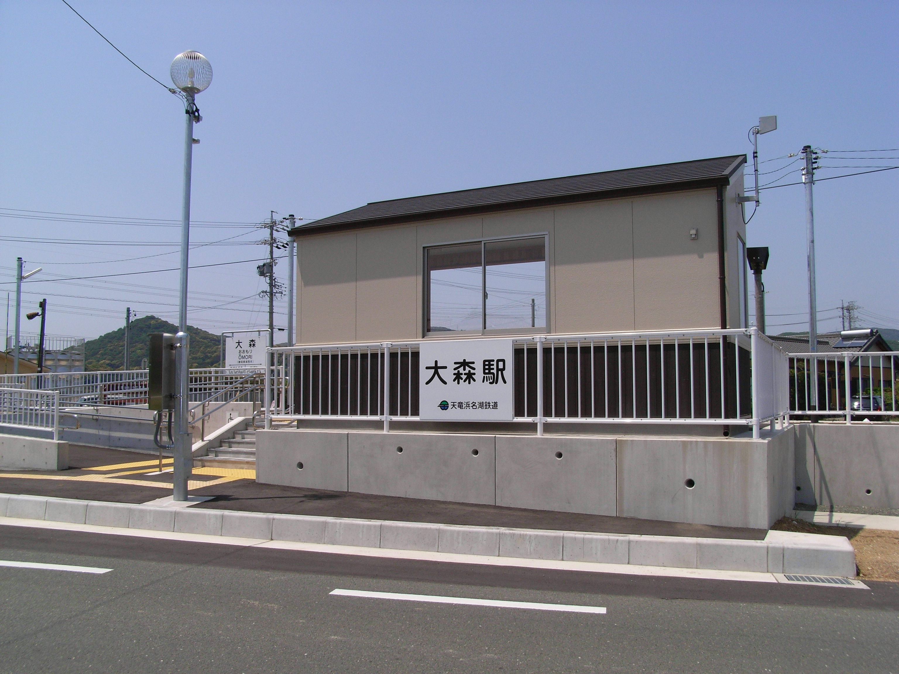 Omori Station in Kosai, Shizuoka